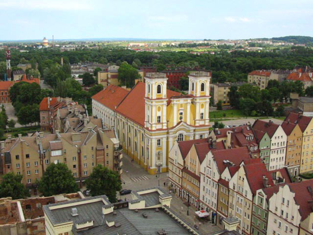 Corupus Christi Church in Głogów. Picture from Fryvolic Art, taken in 2002, licensed under GFDL and CC-BY-SA 2.0 with author's permission.